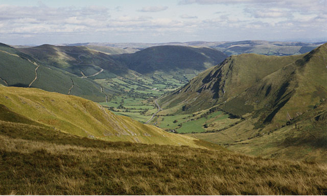 View east from the Cribin ridge The view looks straight down the valley of the Afon Cerist. The quarry path to the slate quarries can be seen rising up the ridge on the left.